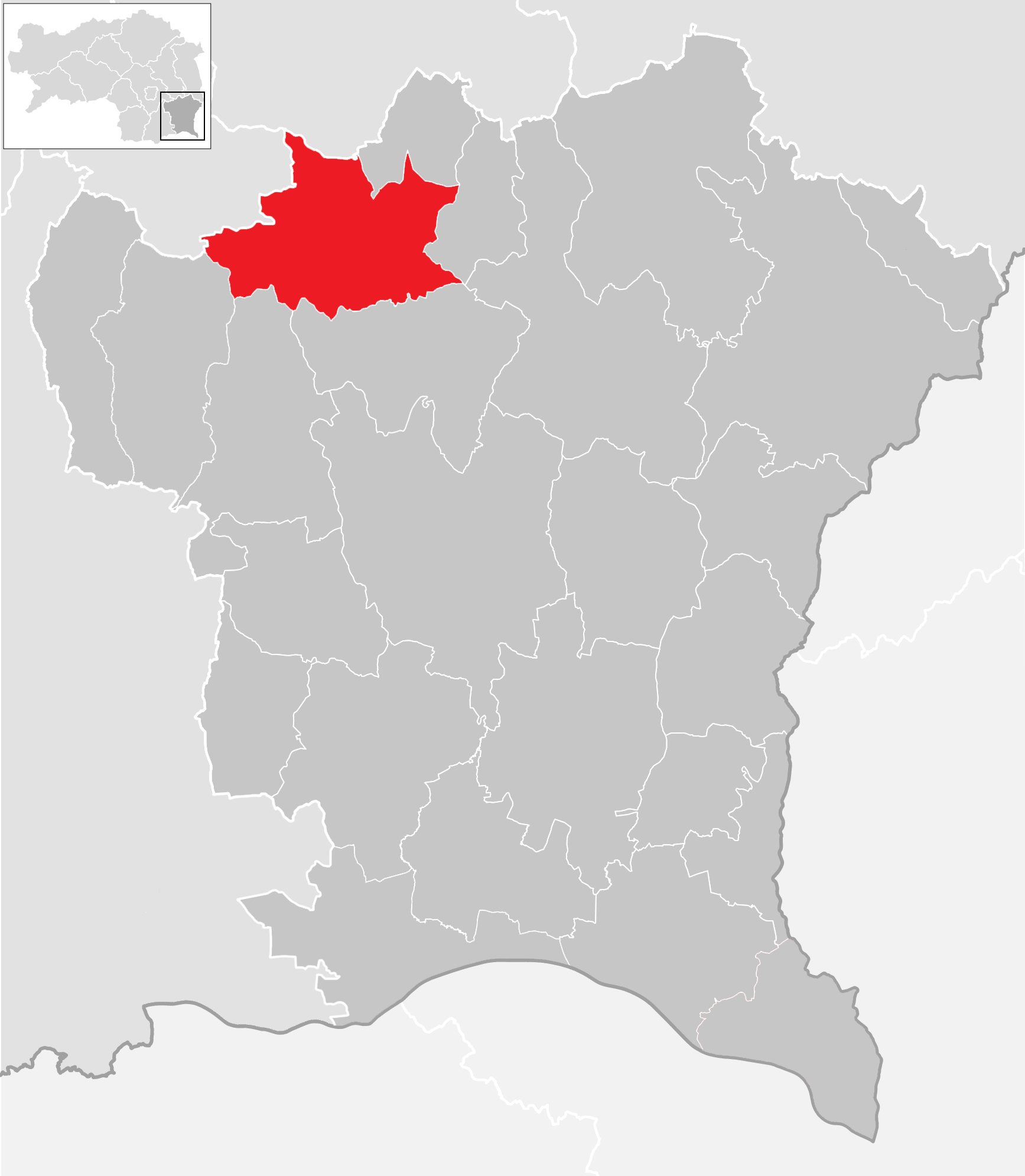 district Südoststeiermark